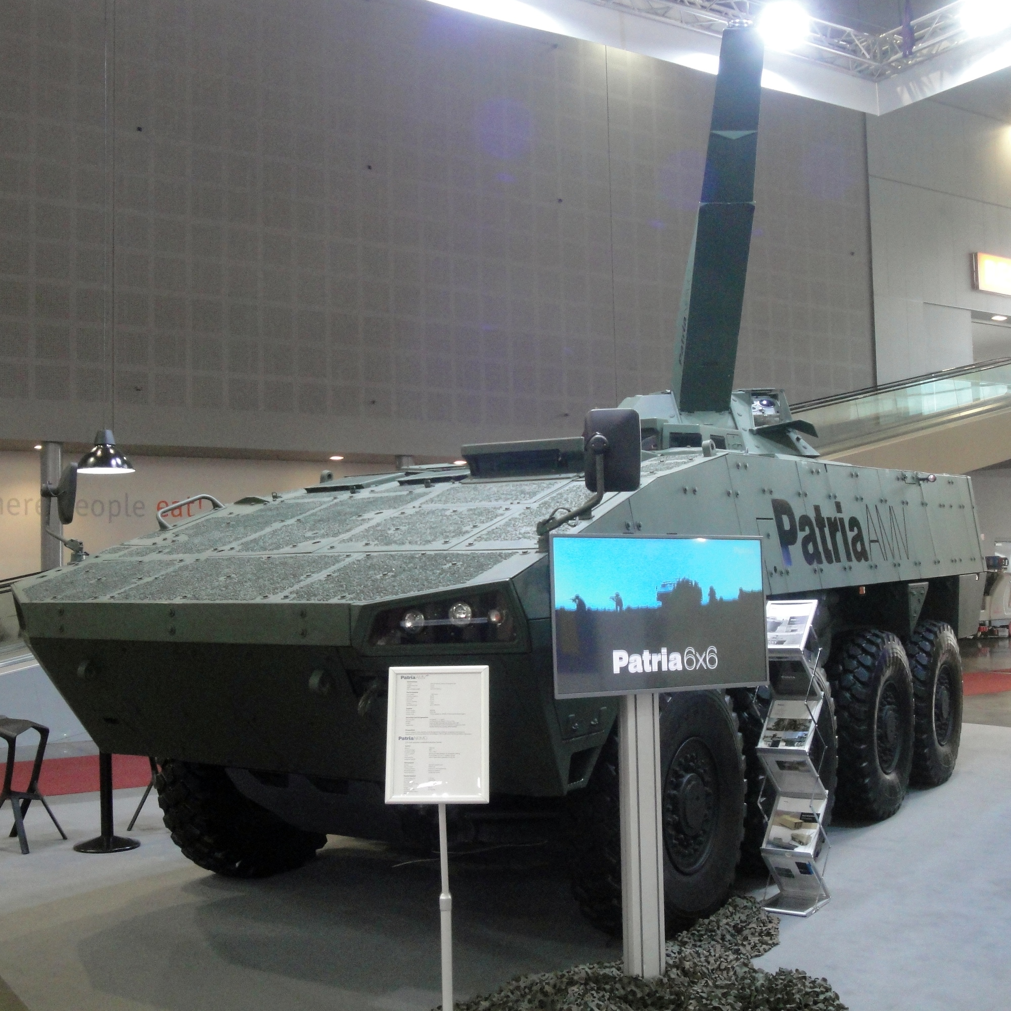 Patria AMV NEMO, IDET/PYROS/ISET 2019, Brno